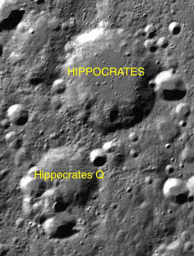 Part of the chart LAC-8 used for the presentation